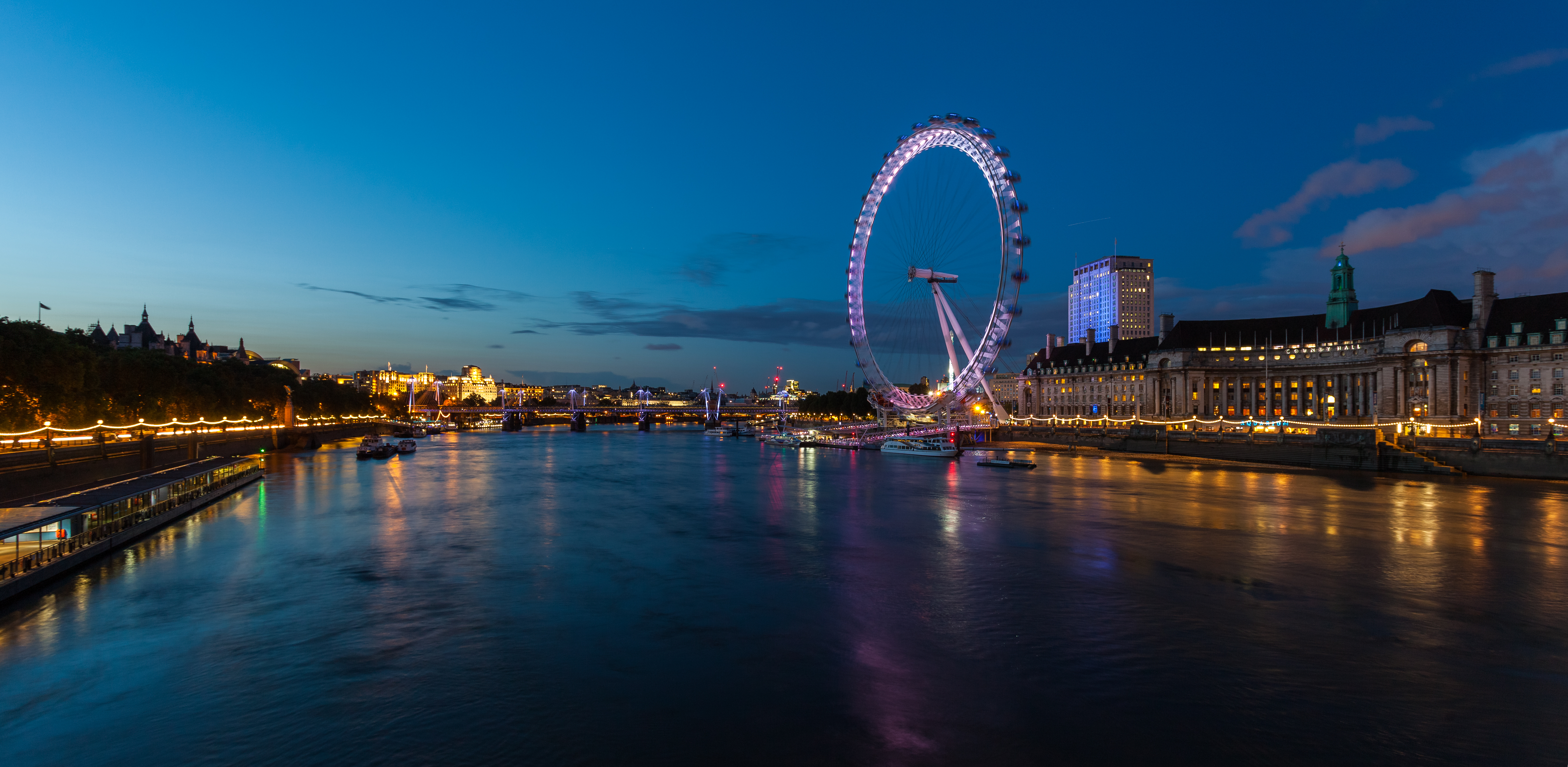 Thames River, London, England